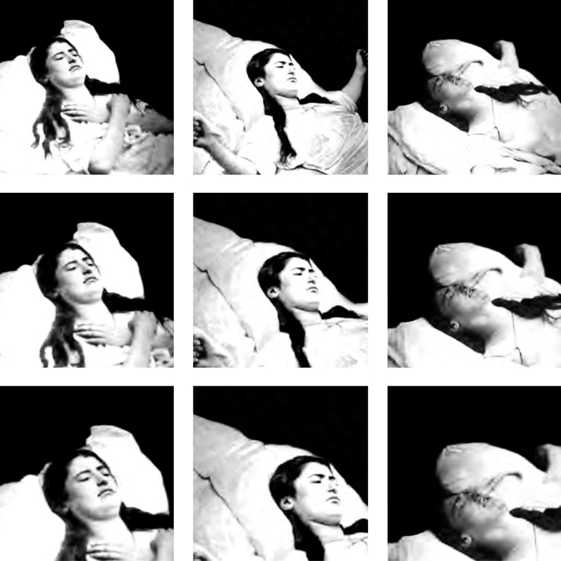 Jean-Martin Charcot Series inspired by French neurologist Jean Martin Charcot studies in Neurosis. Charcot (1825-1893) used hypnotism to treat hysteria and other abnormal mental conditions and he had a profound influence on many farther neurologists, psychologists and psychotherapists as Sigmund Freud (1856-1939), father of psychoanalysis. - All materials from “Iconographie photographique de la Salpêtrière” (Jean Martin Charcot,1878).